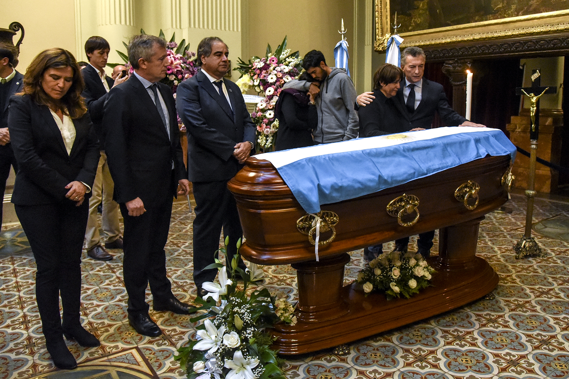 CON MUESTRAS DE PROFUNDO DOLOR, DESPIDIERON EN EL CONGRESO AL DIPUTADO HÉCTOR OLIVARES